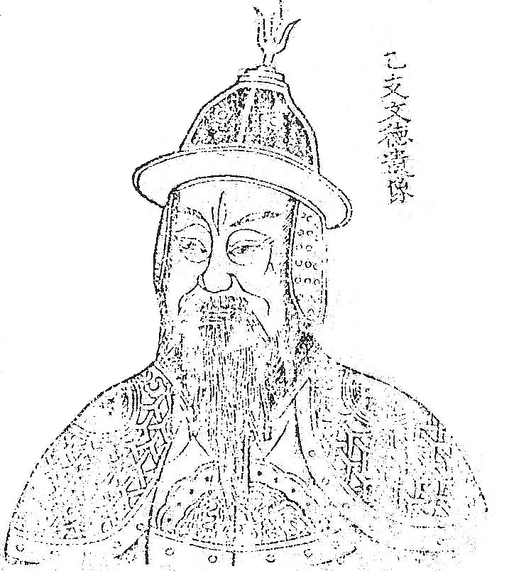 An old portrait of Eulji Mun-deok, the field marshal of Goguryeo during the second Goguryeo-Sui war. This image, carried as an illustration of the school textbook (初等大韓歷史) during the Korean Empire period, is probably a reproduction of the original sketch in the Joseon period.